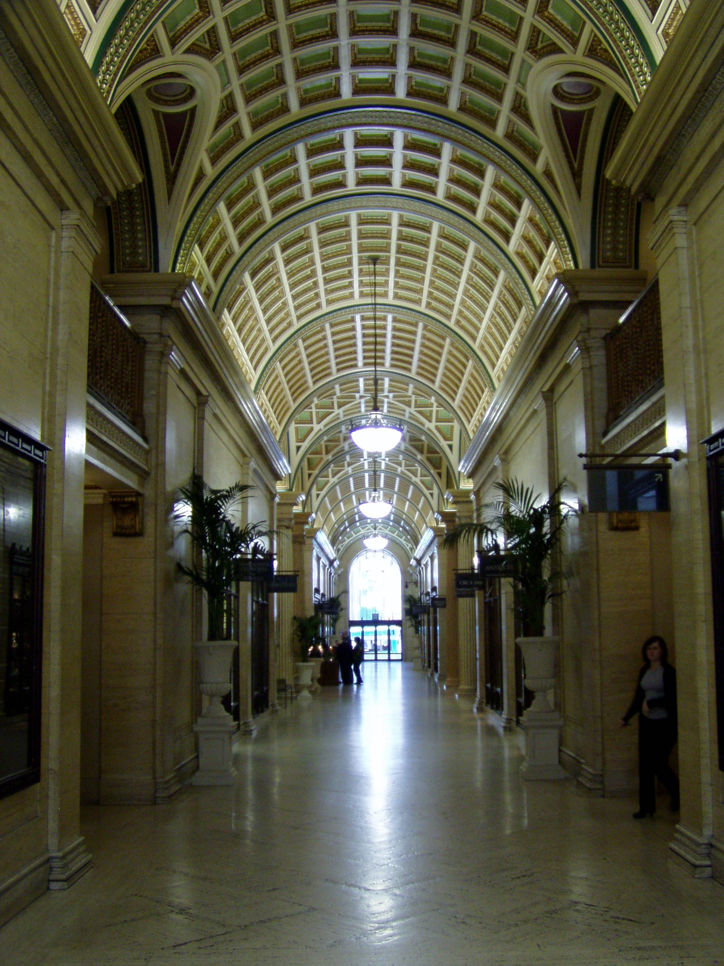 Interior of India Buildings